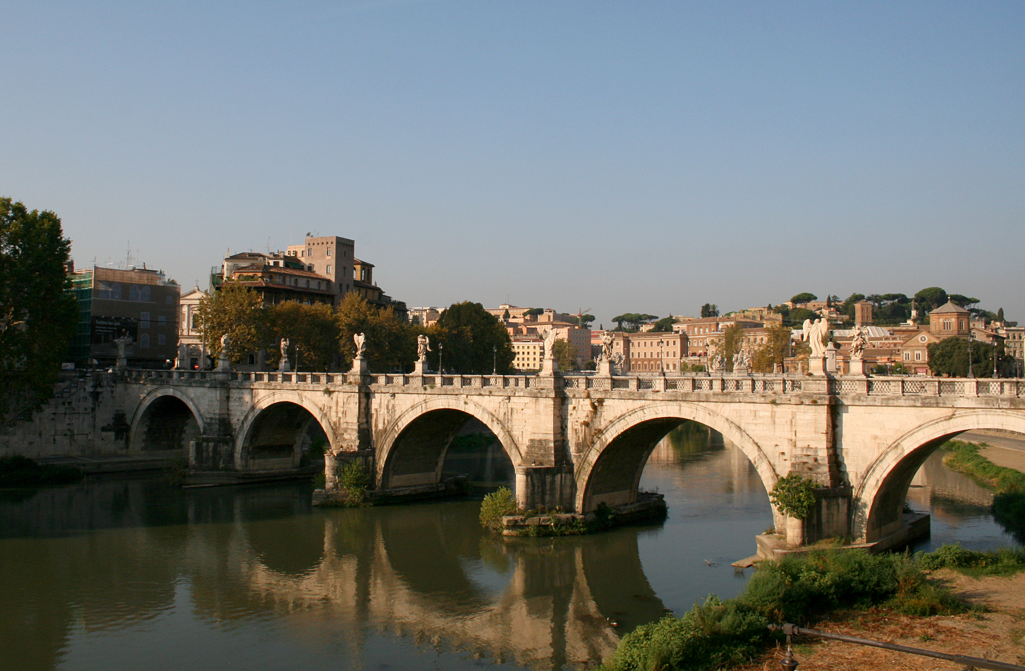 The Ponte Sant'Angelo on the Tiber in Rome, Italy.